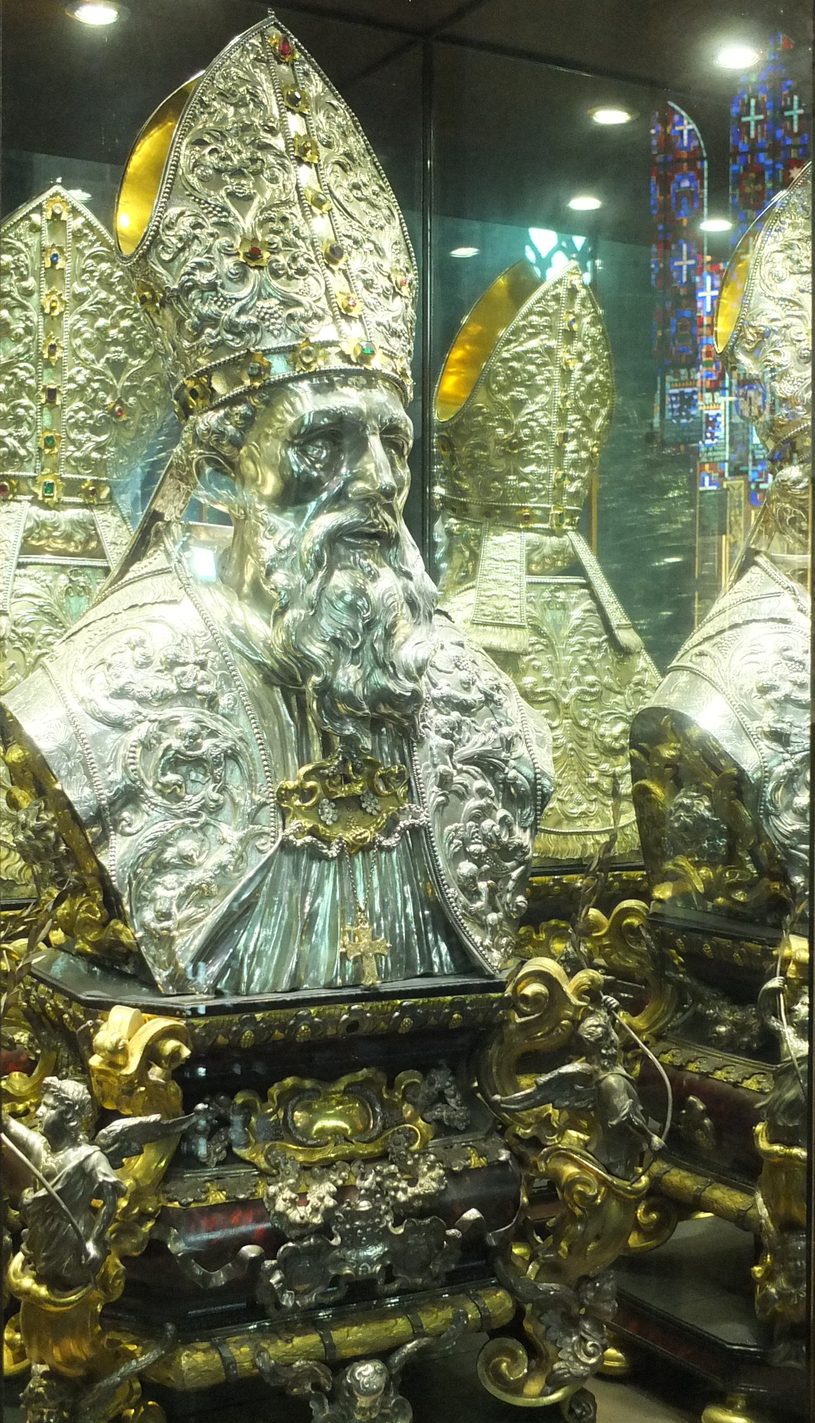 Philip Le Noir, Silver bust of Saint Perpetuus (1671) in the Collegiate Church of Our Lady, a 13th-century Gothic cathedral in Dinant(Belgium). The bust is said to contain the skull of St Perpetuus.